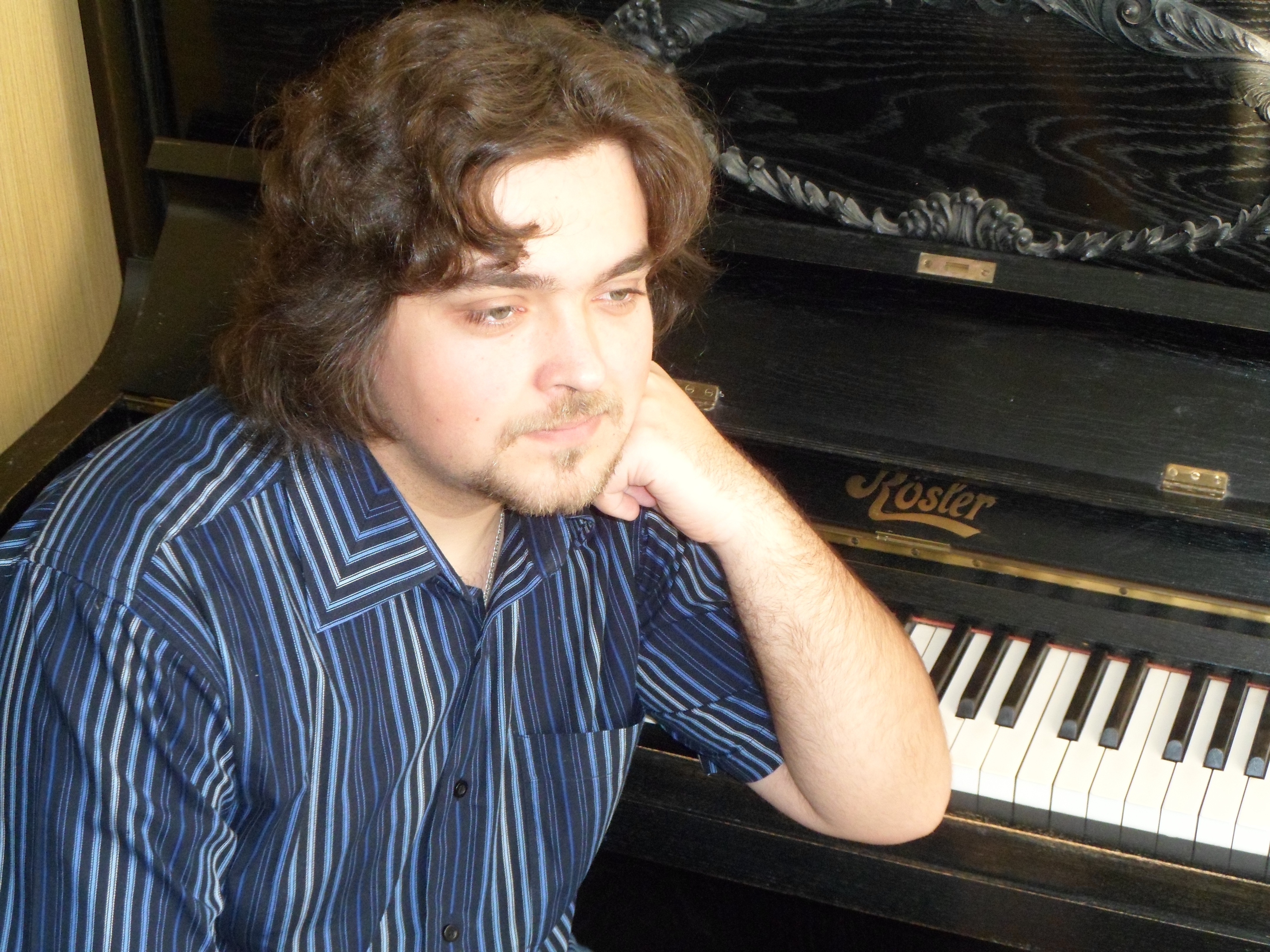 Pavel Samiec - accordeonist and composer